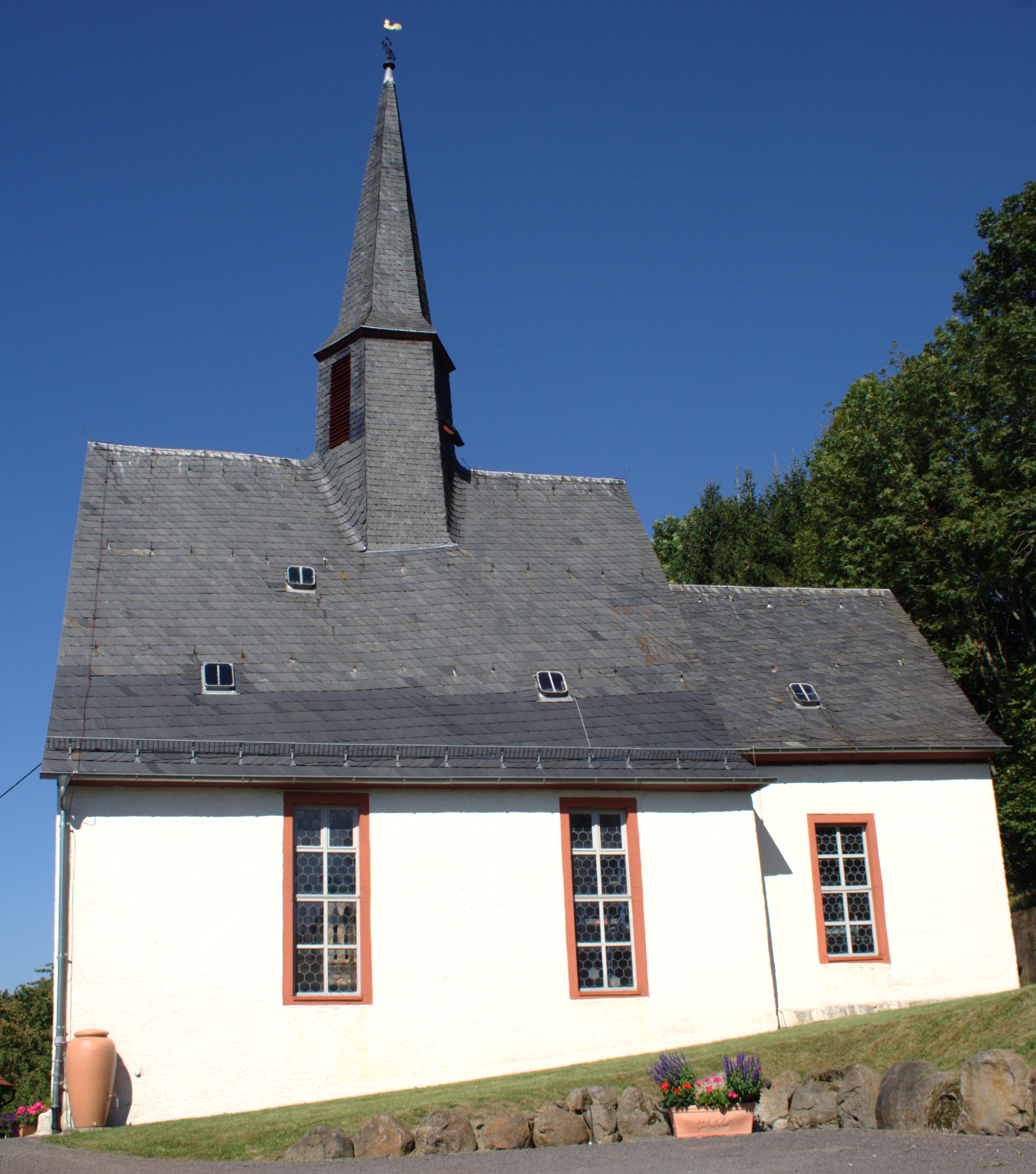 Church in Mittel-Seemen Gedern / Hesse / GermanyThis is a photograph of an architectural monument.